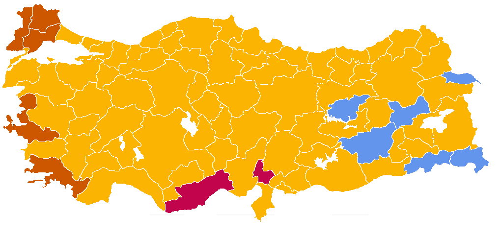 Largest party per province